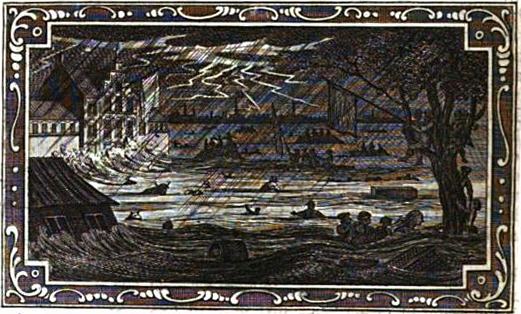 st Martens Flood in Groningen, Netherlands 1686